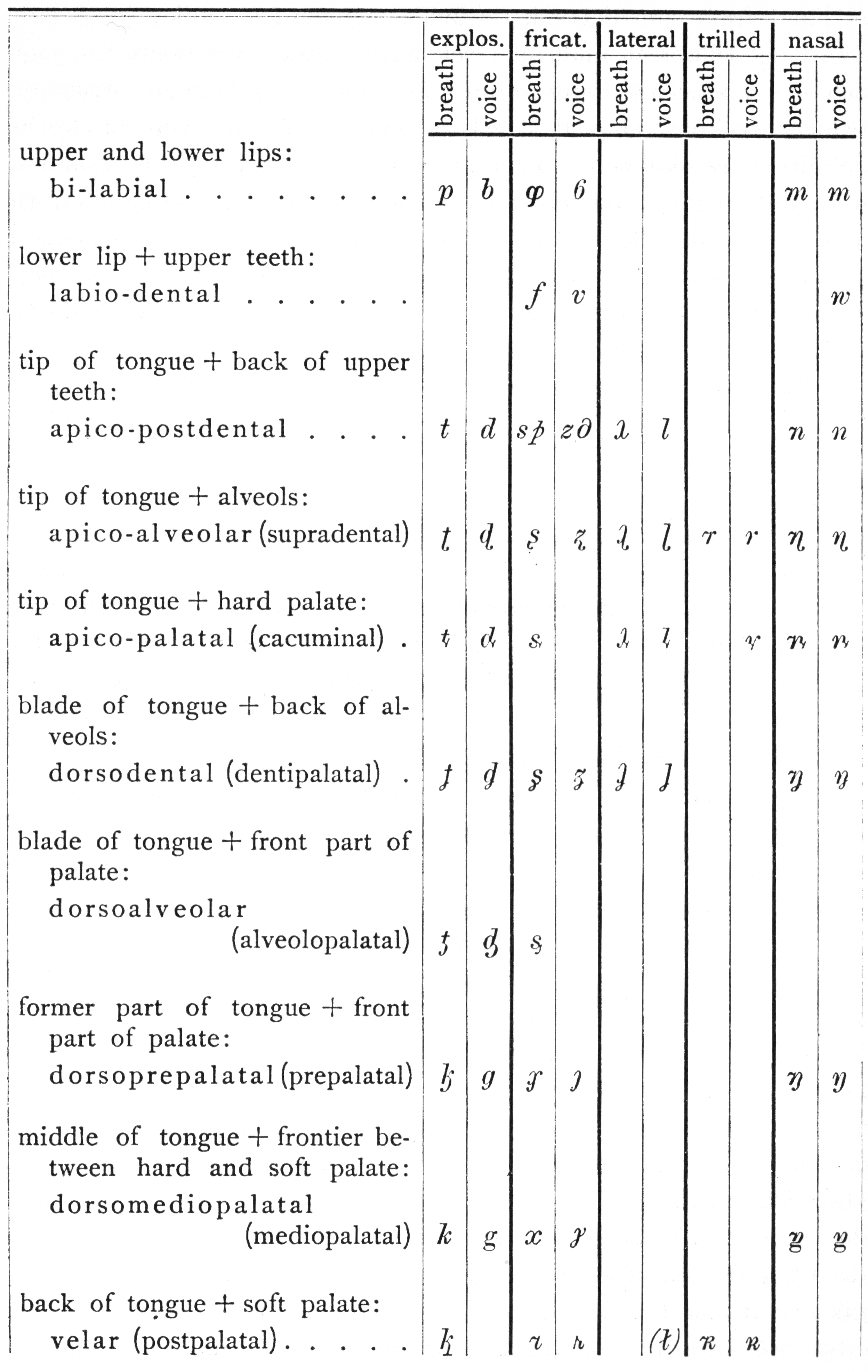 Consonant chart of the Landsmålsalfabetet from 1928